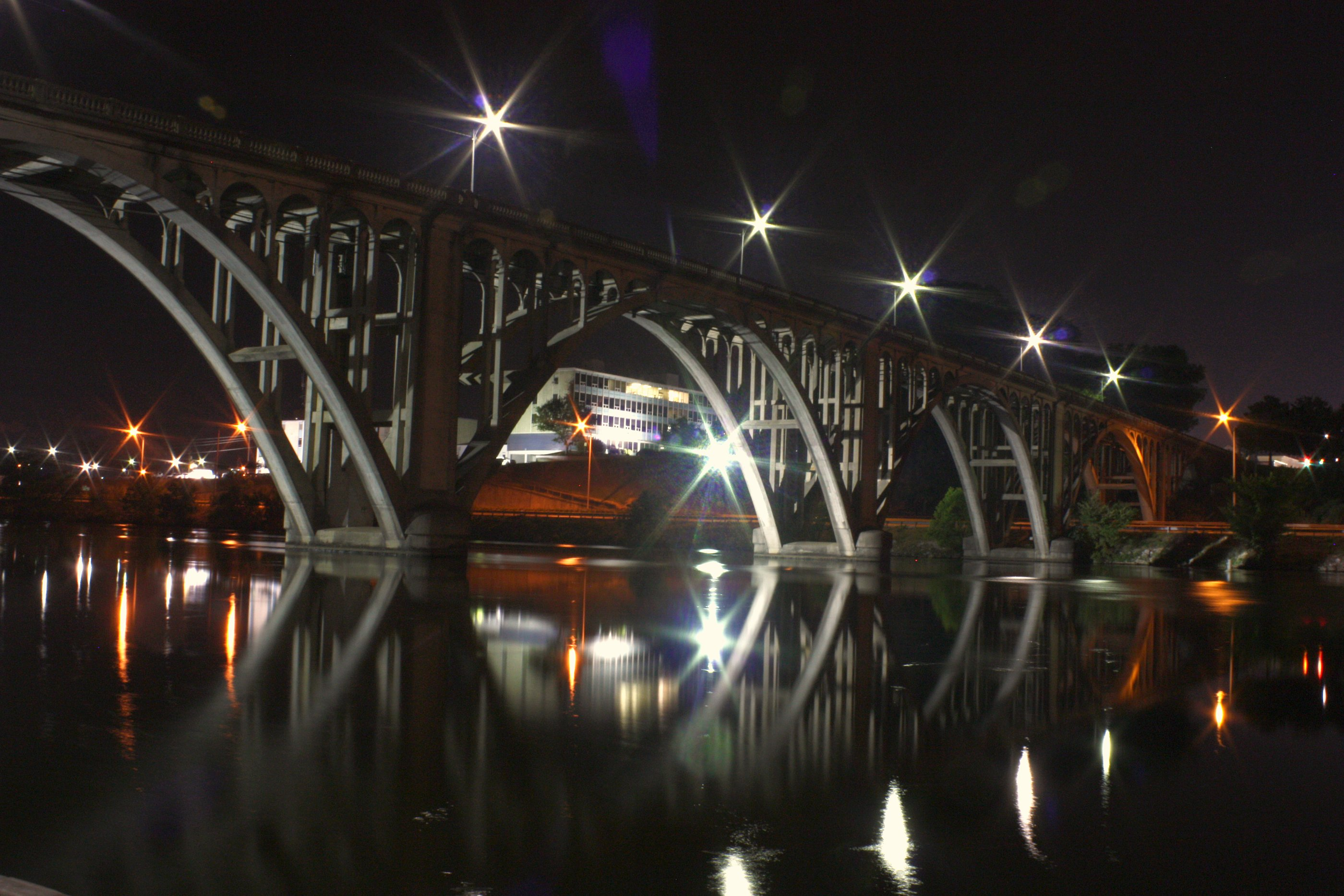 We ventured out again to see if the town had anything else to offer. No luck. So far, this side of Alabama has been kinda boring. This bridge is located in town and you know me and bridges...